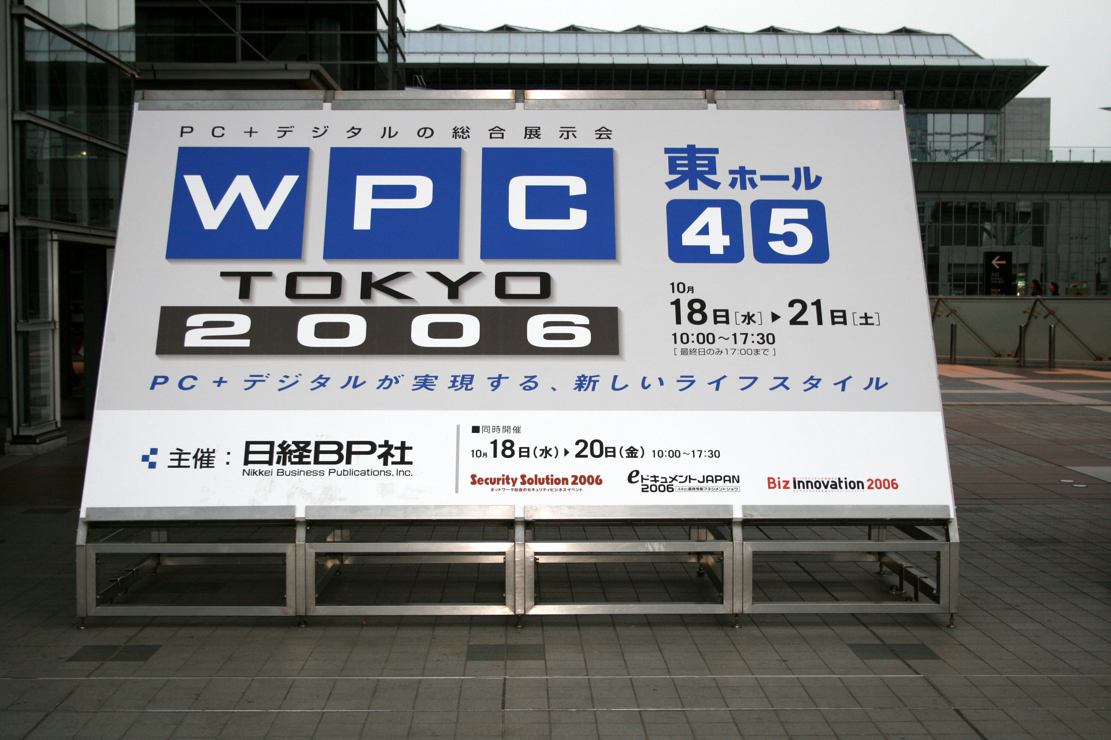 WPC TOKYO 2006の会場